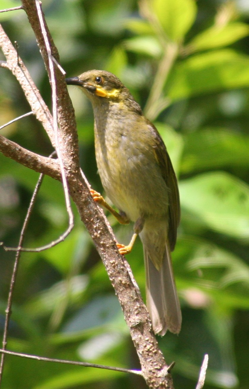 Wattled Honeyeater, Foulehaio carunculatus, 'Eua, Tonga.